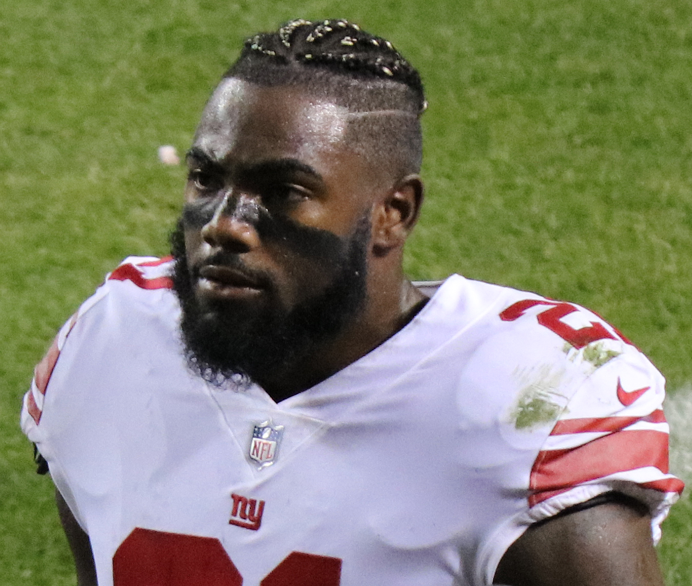 Landon Collins, a player on the National Football League.